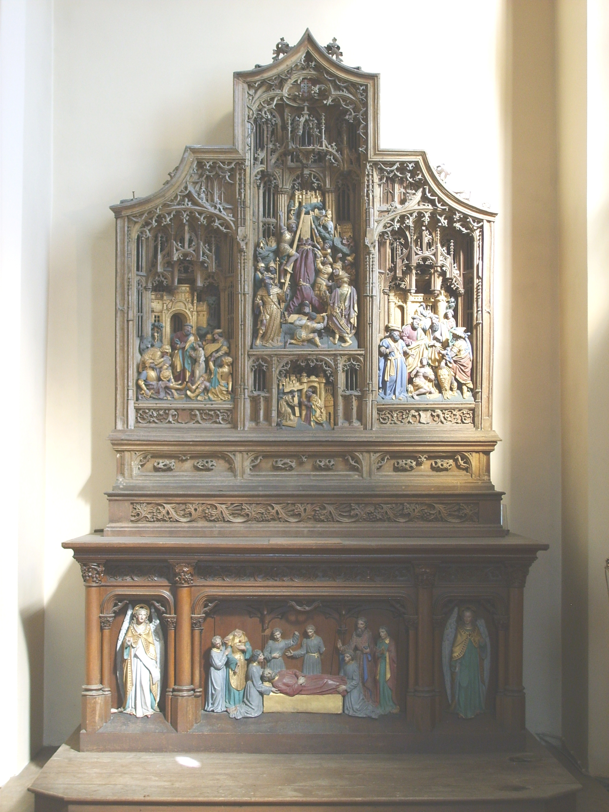 Buvrinnes (Belgium), Saint Peter's altarpiece in the church of the village (beginning of the 16th century).